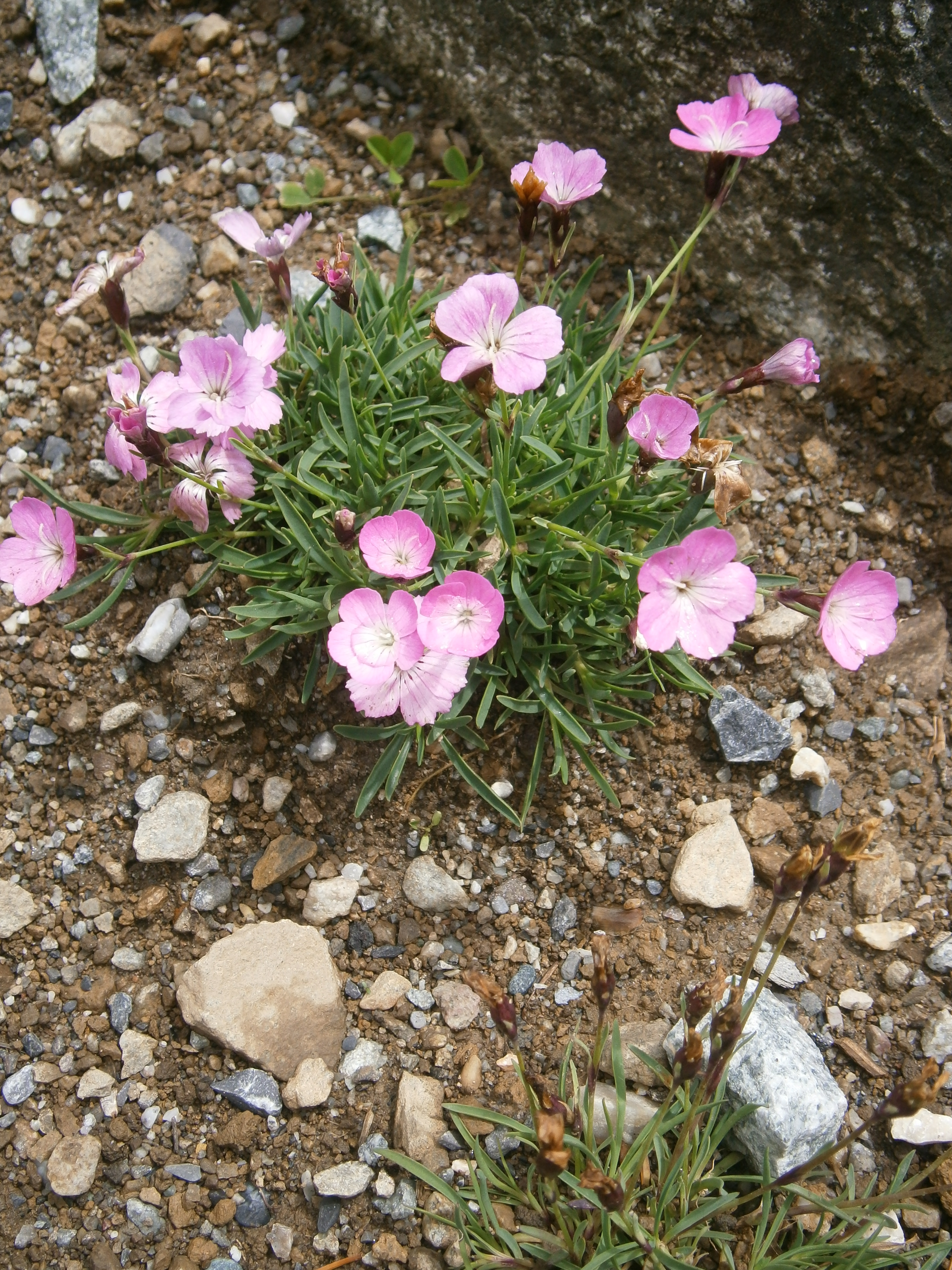 Dianthus scardicus in the Jardin Botanique Alpin du Lautaret